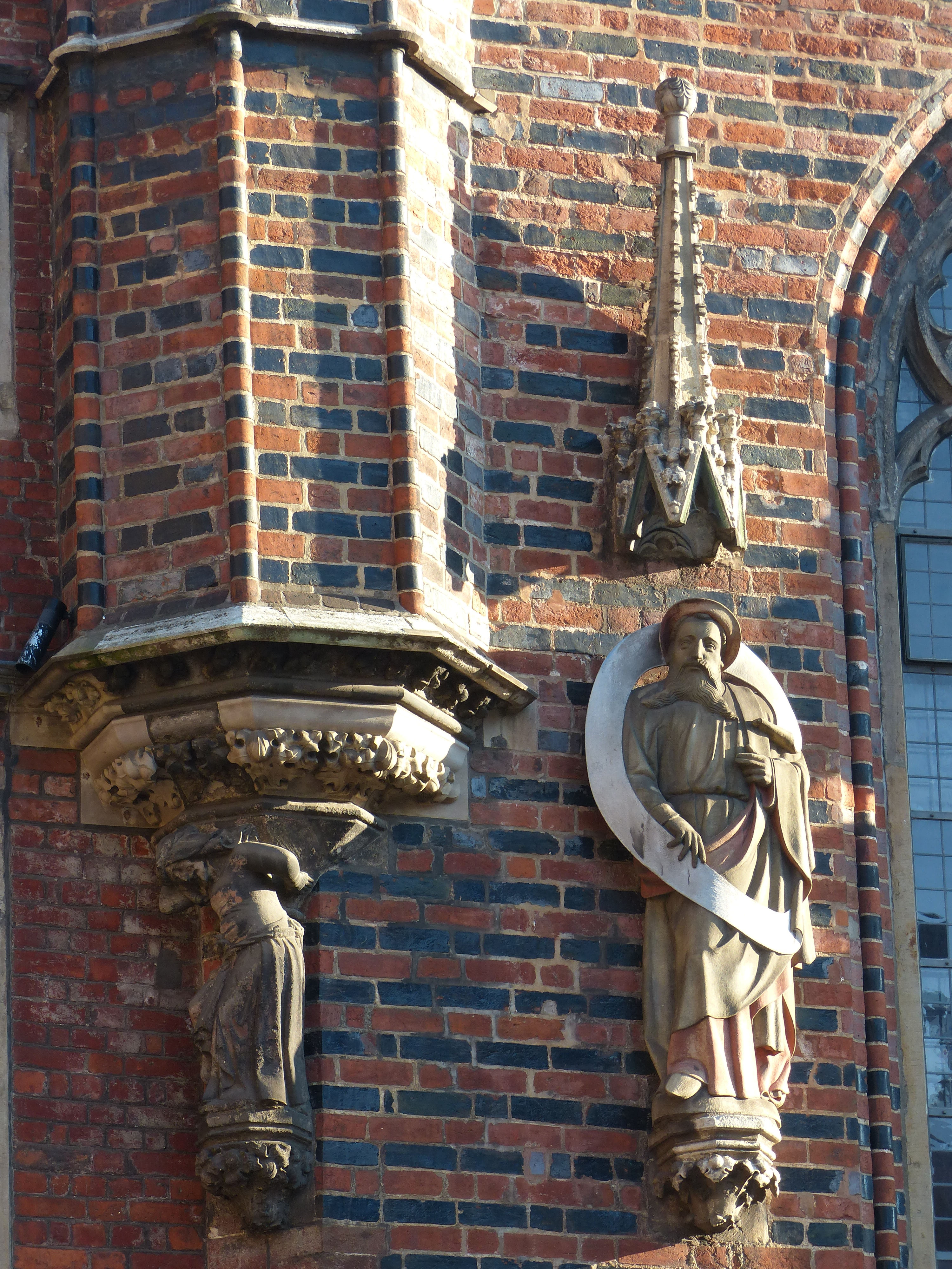 Northeastern corner of the (Gothic) town hall of Bremen with turret, turret porter sculpture and the sculpture of Ezekiel/Platon (in Renaissance age the prophets would be re-interpreted to Greek philosophers)